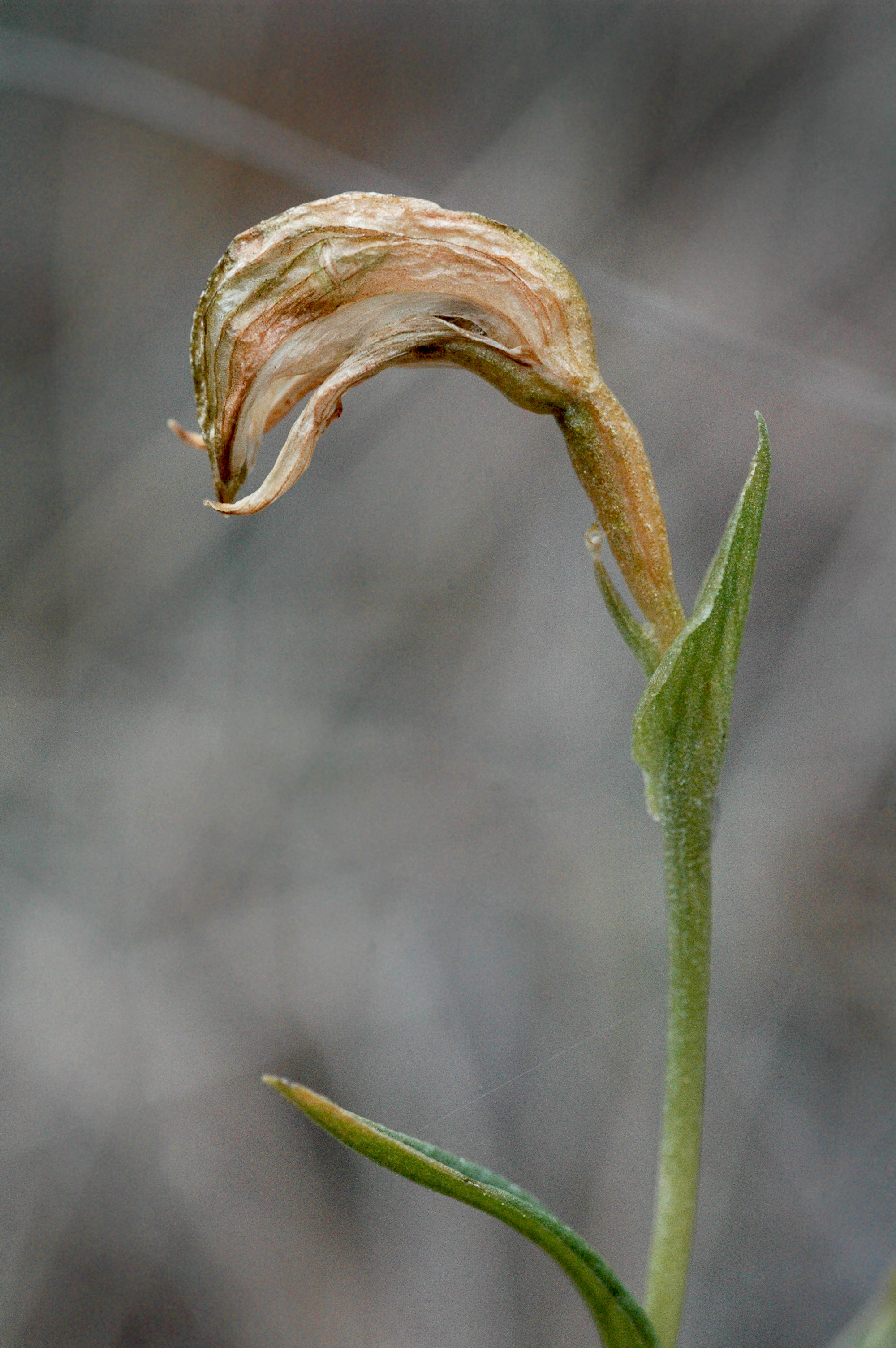 Green-lip Greenhood orchid (Pterostylis stenochila), setting seed after pollination. Tasmanian southern midlands.